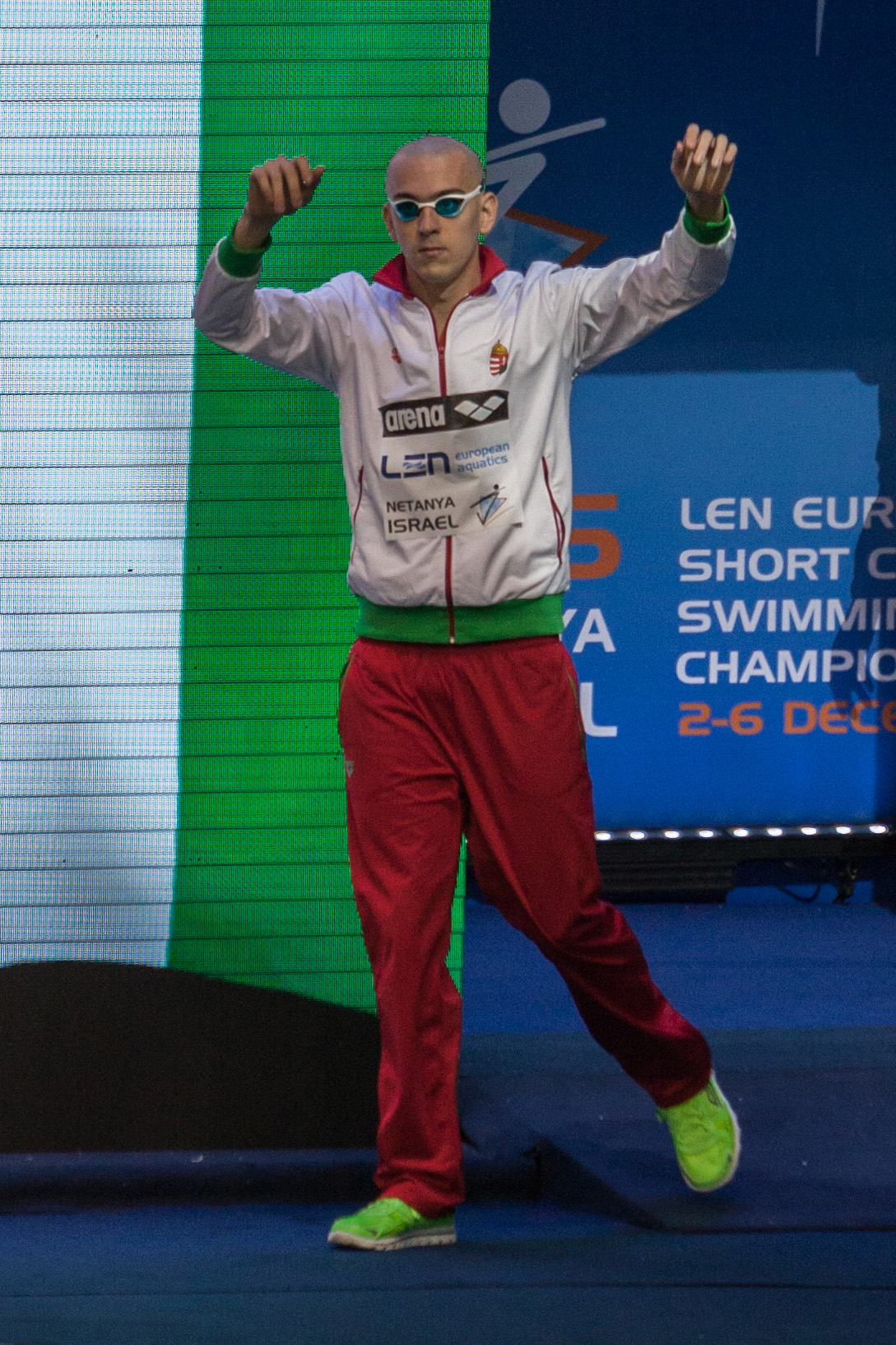 Swimmer László Cseh at the 2015 European Short Course Swimming Championships, Netanya